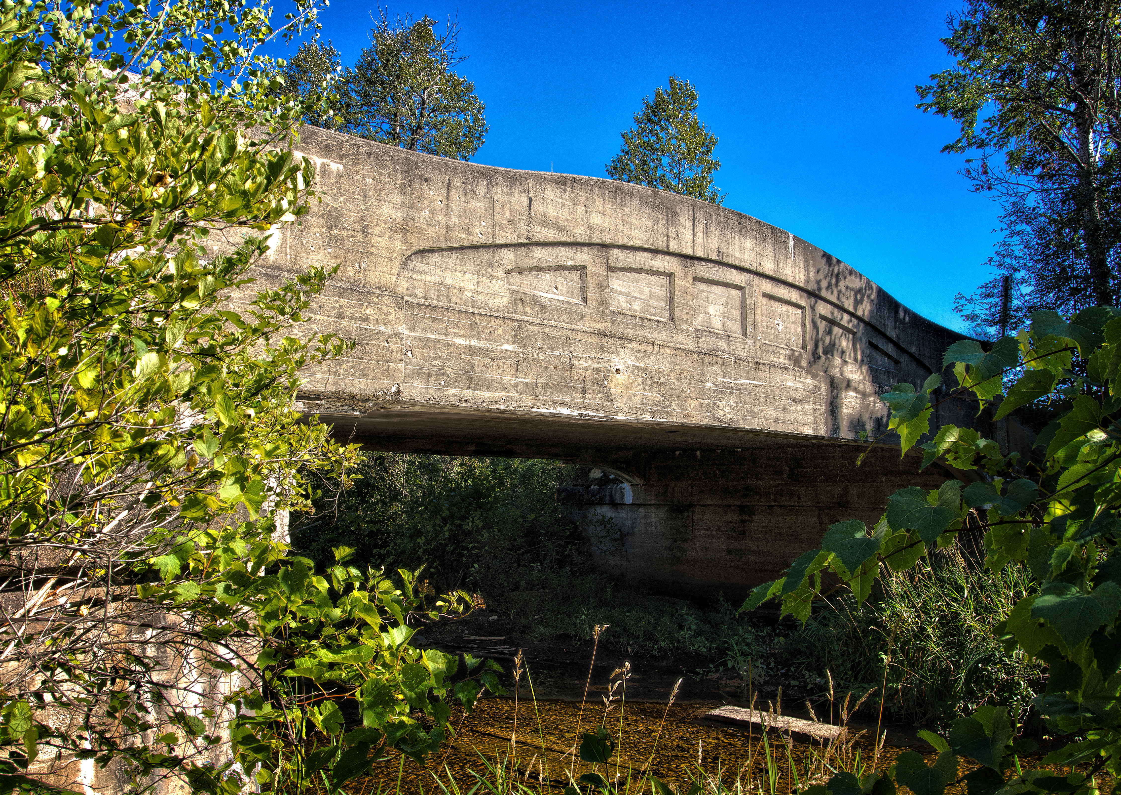 River Road over the Ocqueoc River. Close to, but does not appear to be the NRHP-listed bridge refnum 99001536.